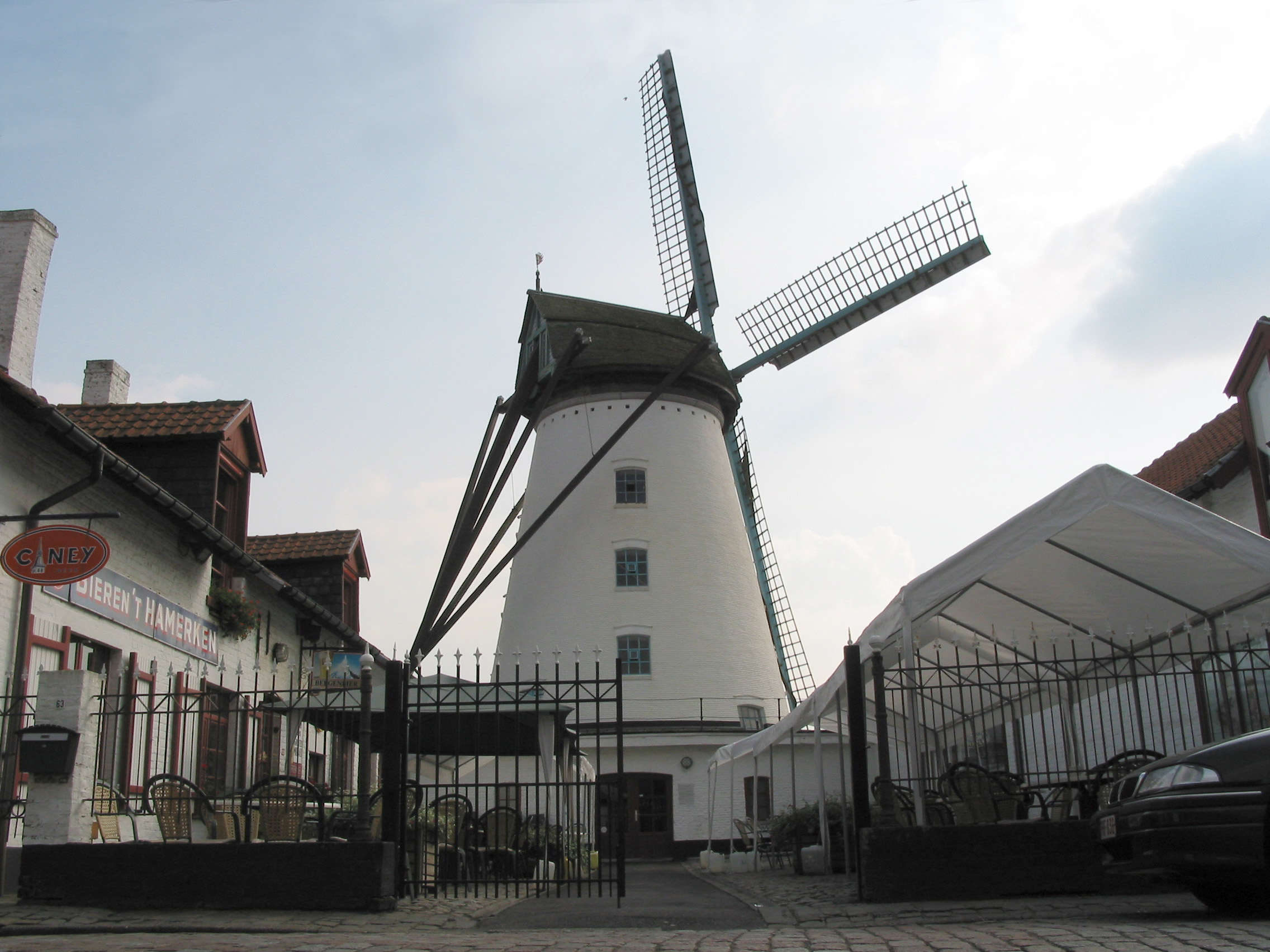 Wervik (Belgium), the old windmill.